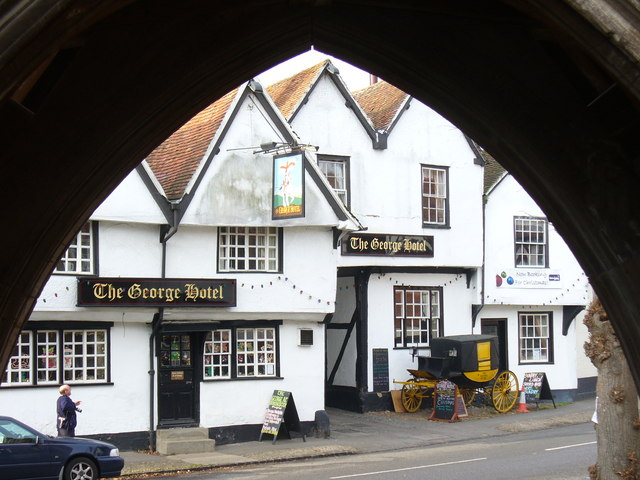 The George Hotel Former coaching inn on Dorchester's High Street - note the coach outside. It has a galleried yard dating back to 1495 and it used to serve coaches on the Gloucester - Oxford - London route. Seen through the gateway to Dorchester Abbey.